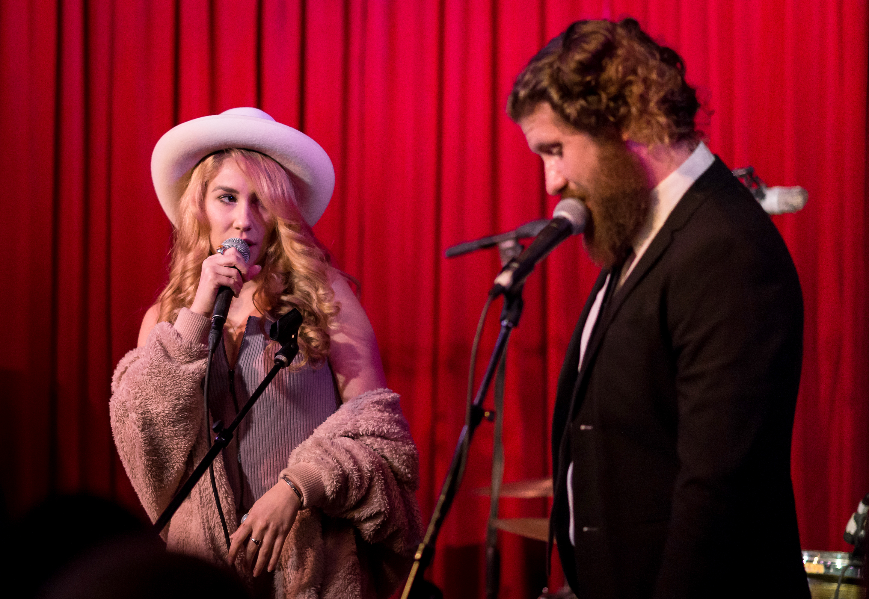 Haley Reinhart sings with Casey Abrams at the Hotel Cafe in Los Angeles in January 2018